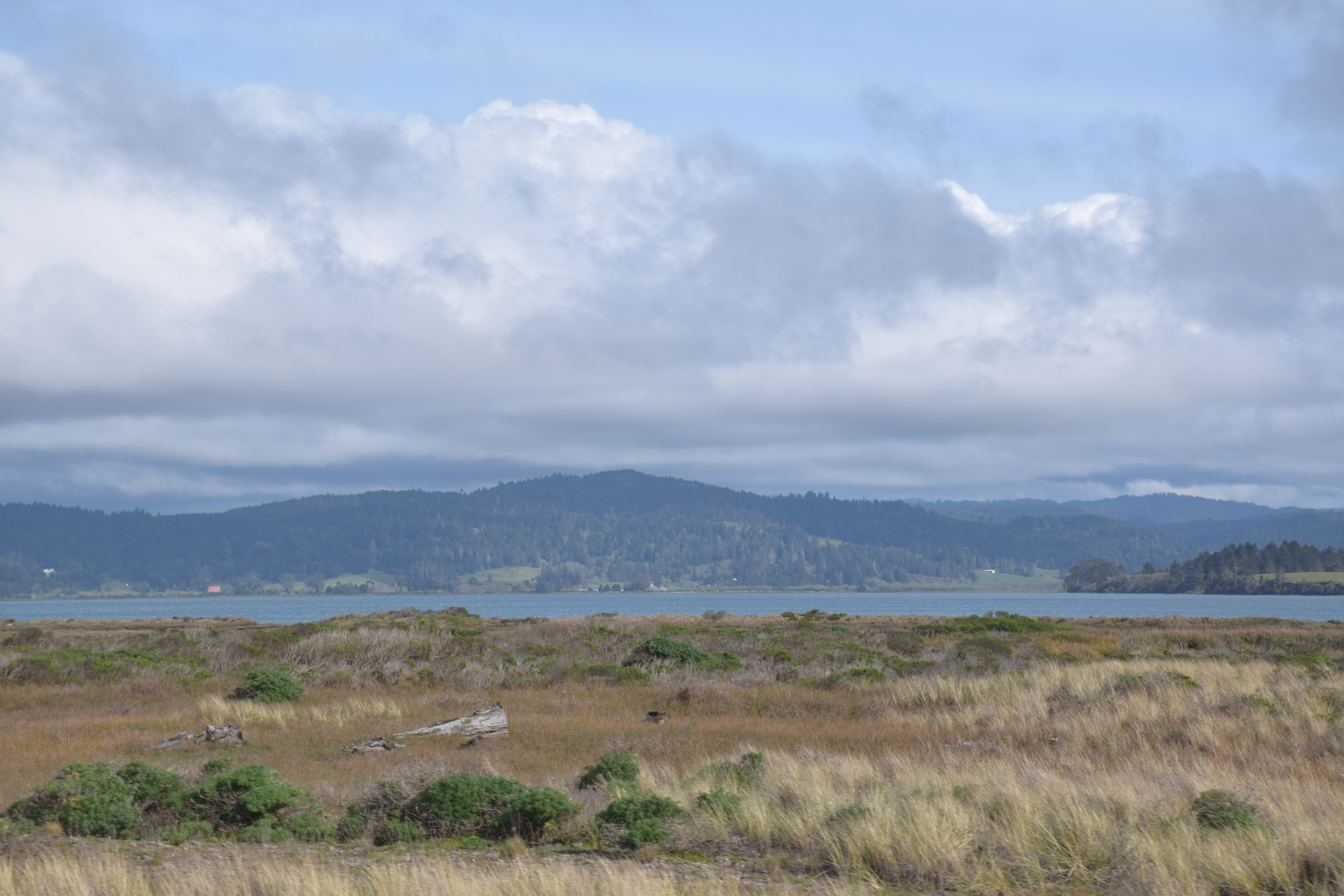 A close up view of Humboldt Bay as well as the surrounding beach, dunes, and marshes